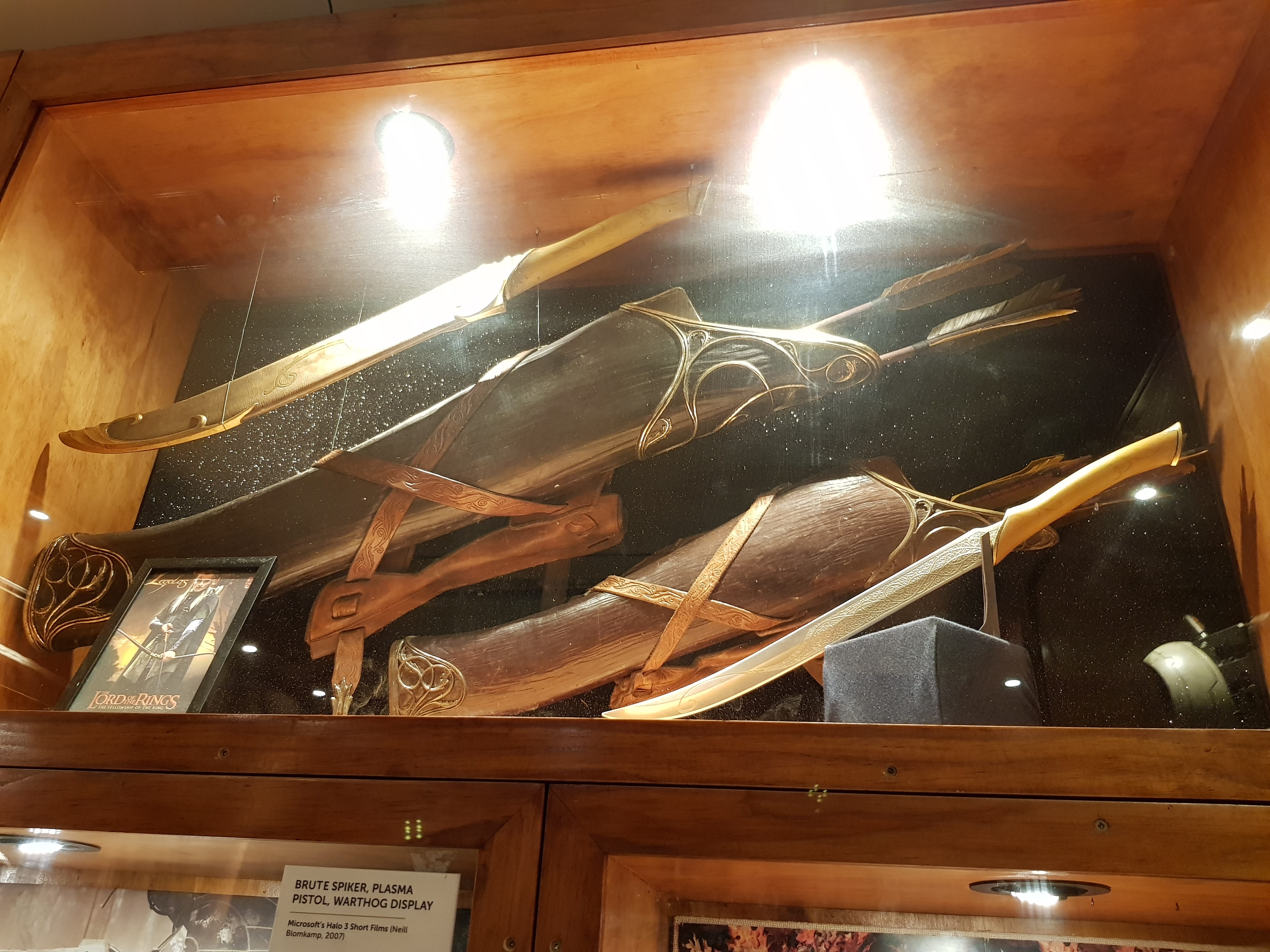 The weapons of Legolas found at the Weta Cave in Wellington, New Zealand.